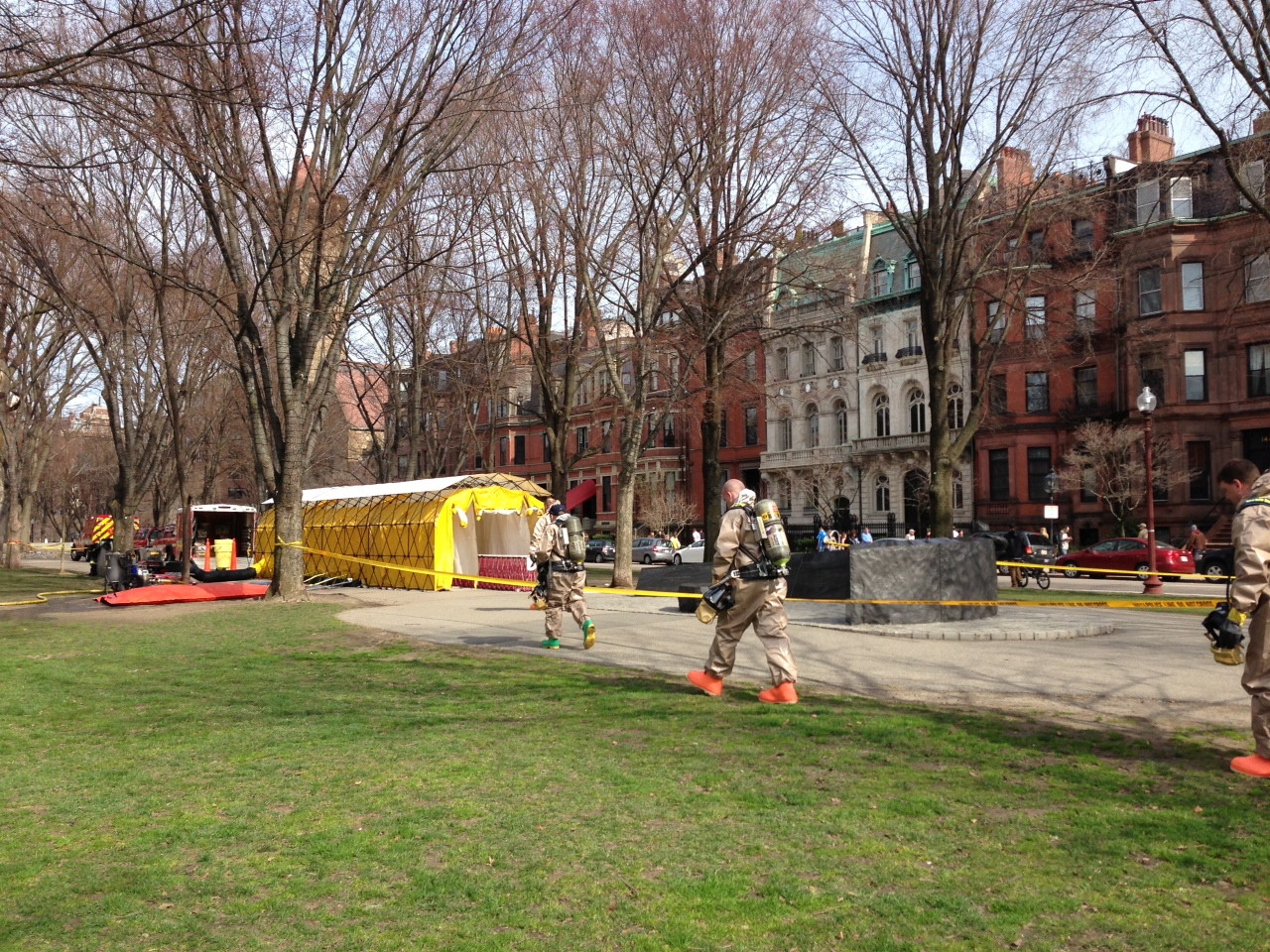 A hazmat biohazard team near the finish line of the 2013 Boston Marathon at Boylston St, after the explosions there.